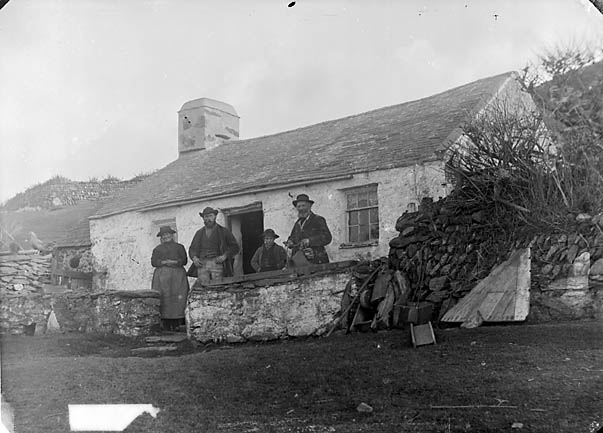 1 negative : glass, dry plate, b&w ; 12 x 16.5 cm.